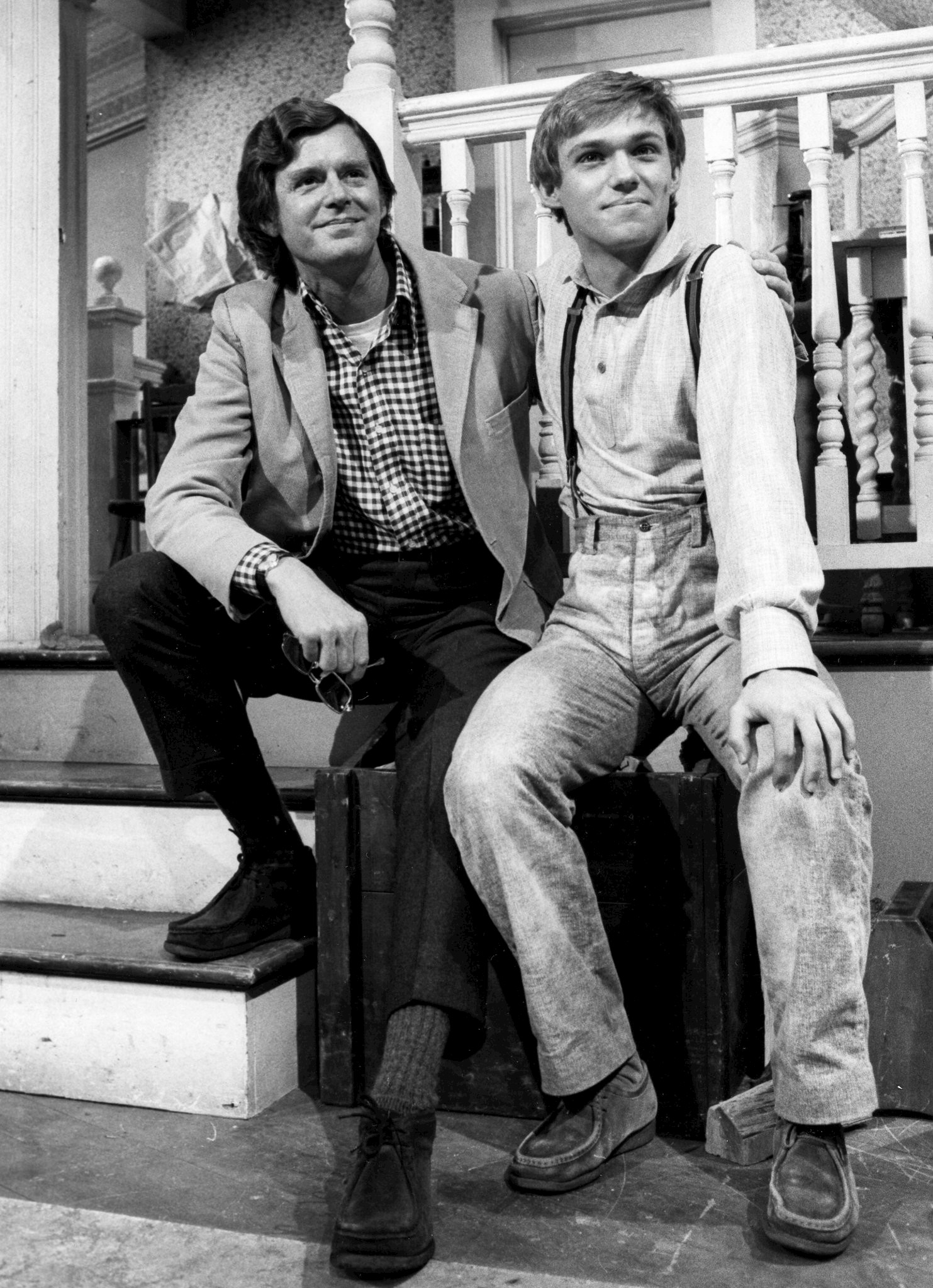 Photo of Earl Hamner, author, and Richard Thomas on the set of the television show The Waltons. The item has no copyright markings on it as can be seen in the links above.